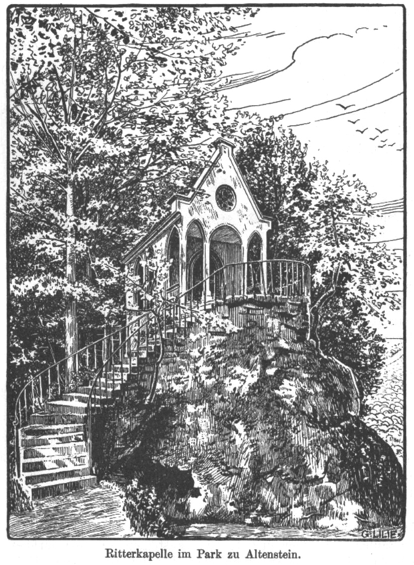 The chappel of Altenstein castle in Bad Liebenstein.